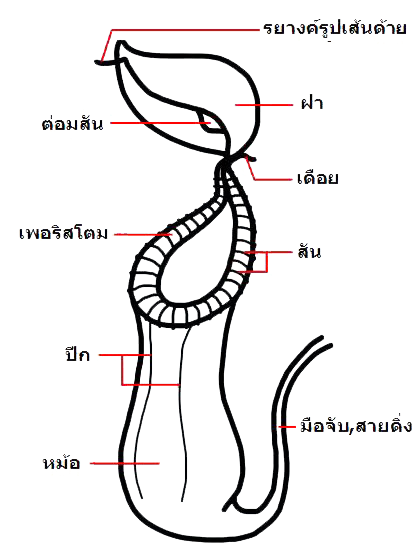 translate to thai